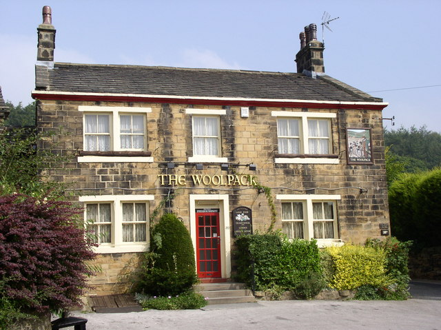 Esholt village Originally named the Commercial Inn